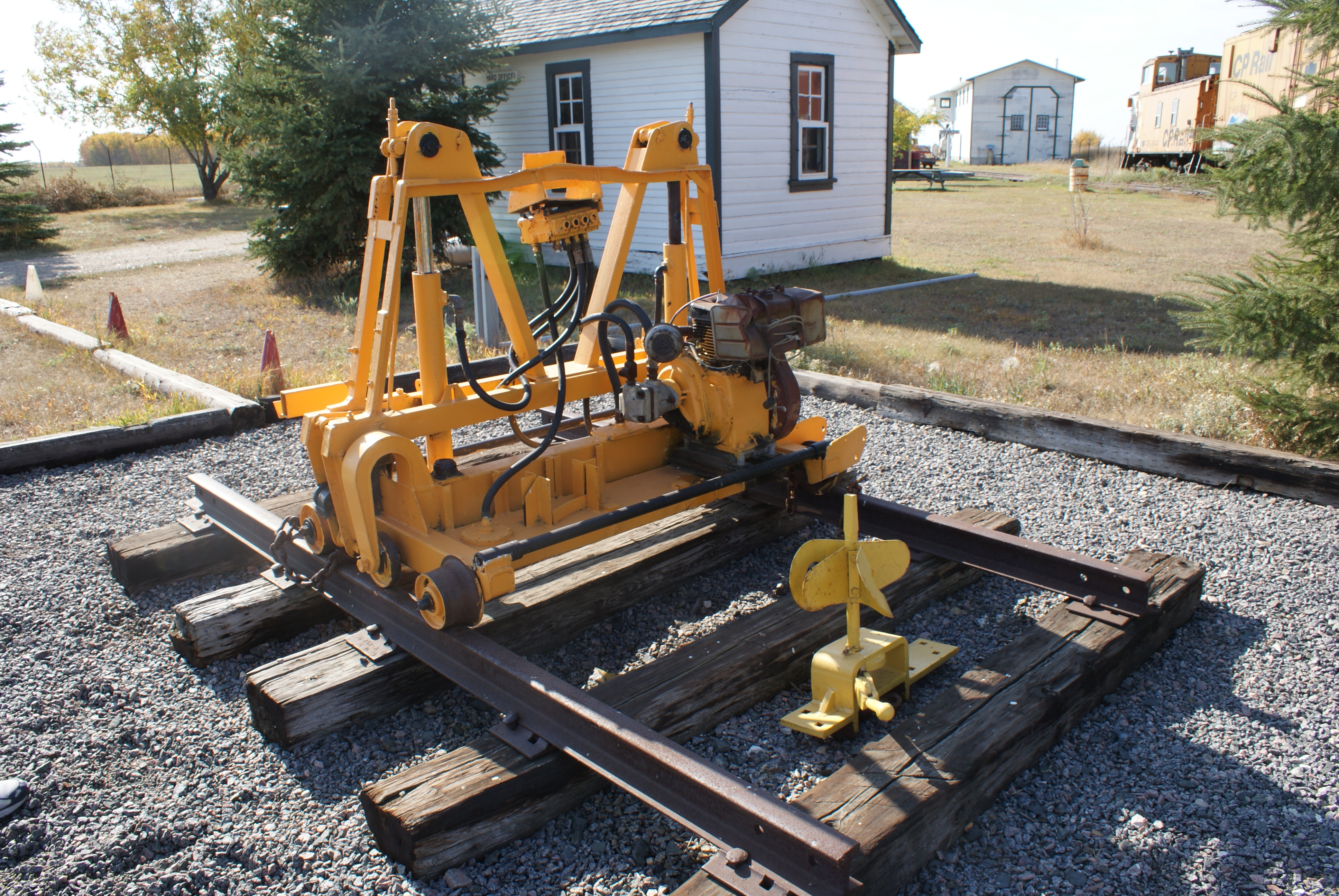 Comboliner for aligning railway track rails. Constructed by Tamper Company. Once the spikes were removed from the ties this machine could lift rails up about 10 inches and then shift them to correct alignment.}